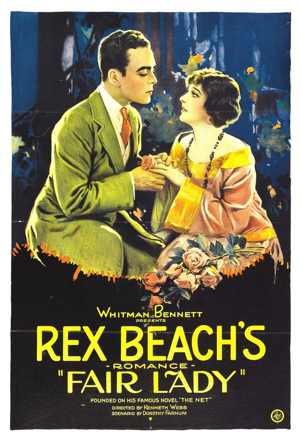 Poster for the 1922 film Fair Lady. Countess Margherita (Betty Blythe) and Norvin Blake (Robert Elliott) are shown.